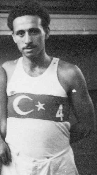 Avram Barokas, Turkish former basketballer who played in Beyoğlu S.K. throughout his whole career.